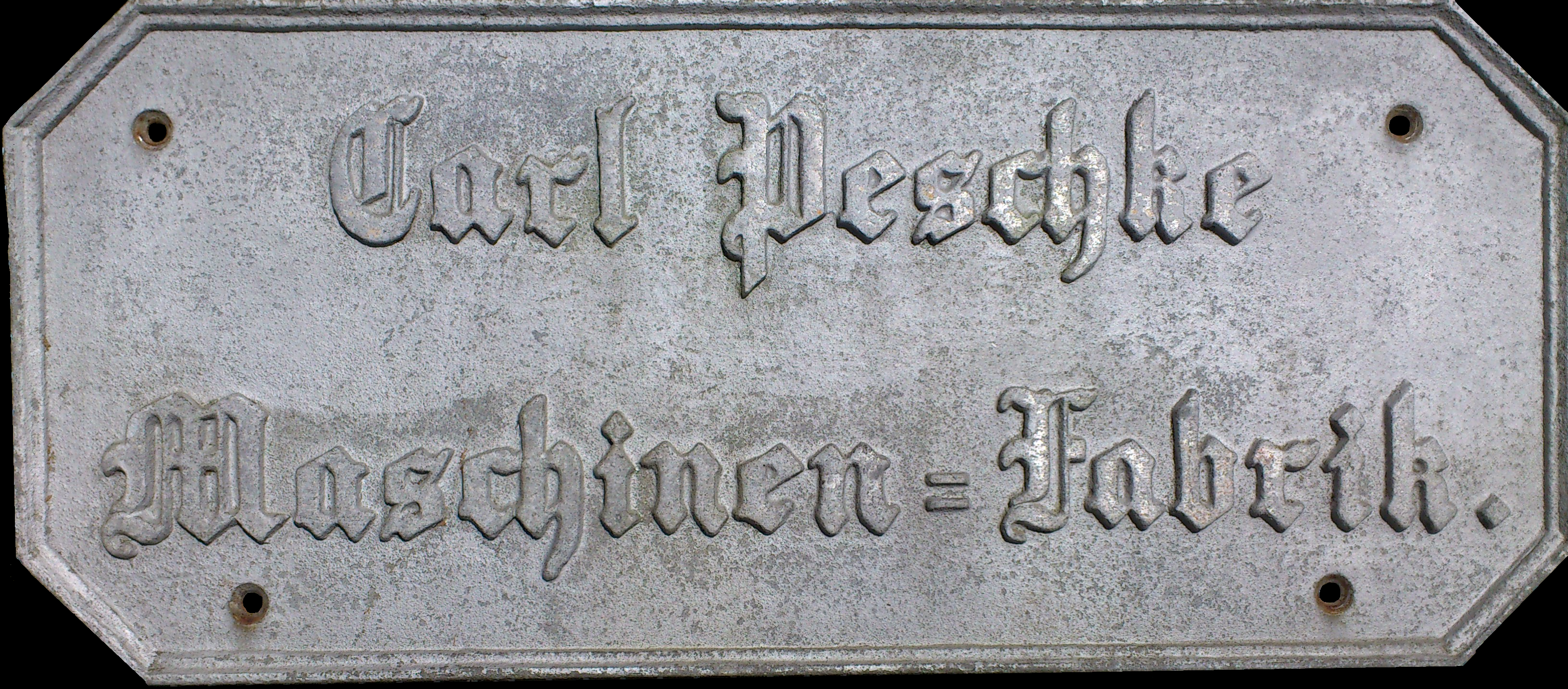 First company plate "Carl Peschke Maschinenfabrik", later PEKAZETT